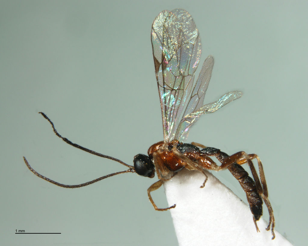 Adult female Zatypota bohemani (RMNH.INS.593328), specimen.